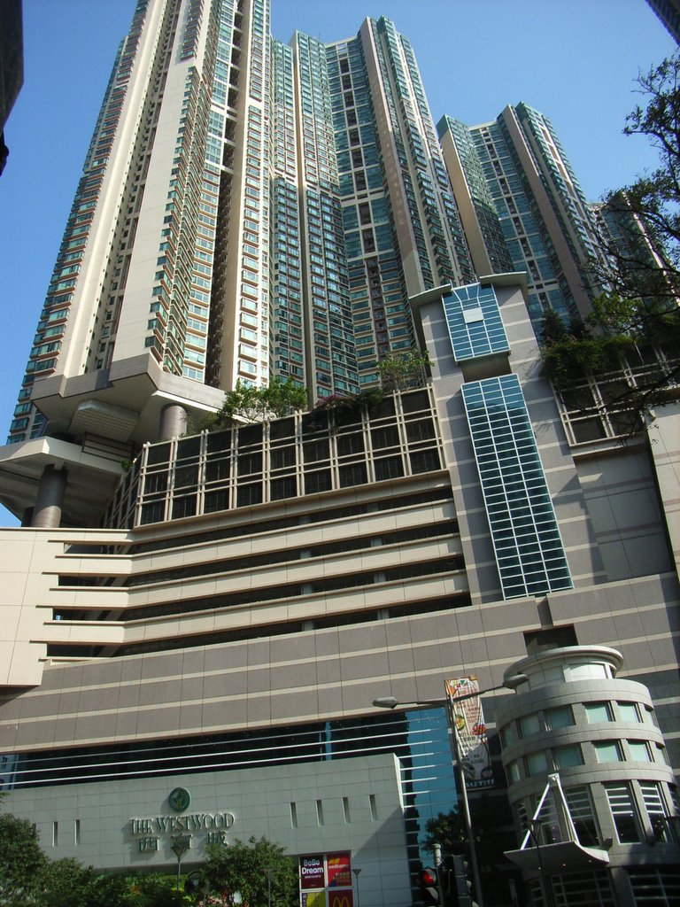 寶翠園 The Belcher's , Sai Ying Pun, Hong Kong (by West Hu).